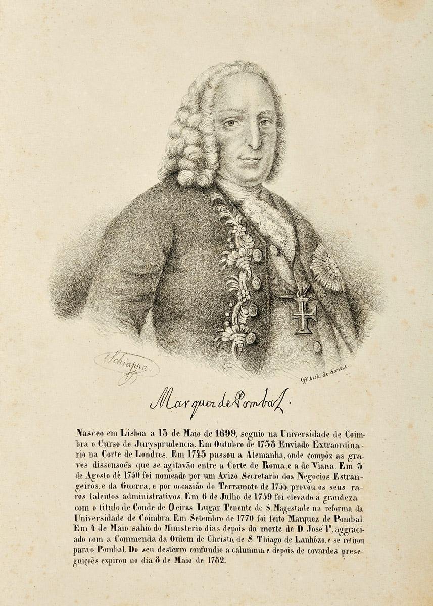 António Onofre Schiappa Pietra (1796–18??). Marquis of Pombal. Engraving based on a pencil on paper portrait signed by the artist. The inscription "Off. Lith. de Santos" is taken to indicate the lithographer as being Pedro António José dos Santos about whom information is scant. Approximate date 1843–1846.